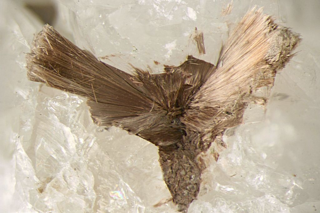 Yofortierite, Analcime (FOV 6.9 x 4.7 mm) Locality: Poudrette quarry (Demix quarry; Uni-Mix quarry; Desourdy quarry; Carrière Mont Saint-Hilaire), Mont Saint-Hilaire, La Vallée-du-Richelieu RCM, Montérégie, Québec, Canada FOV 6.9 x 4.7 mm. Via Tony Gordian. MOB coll.